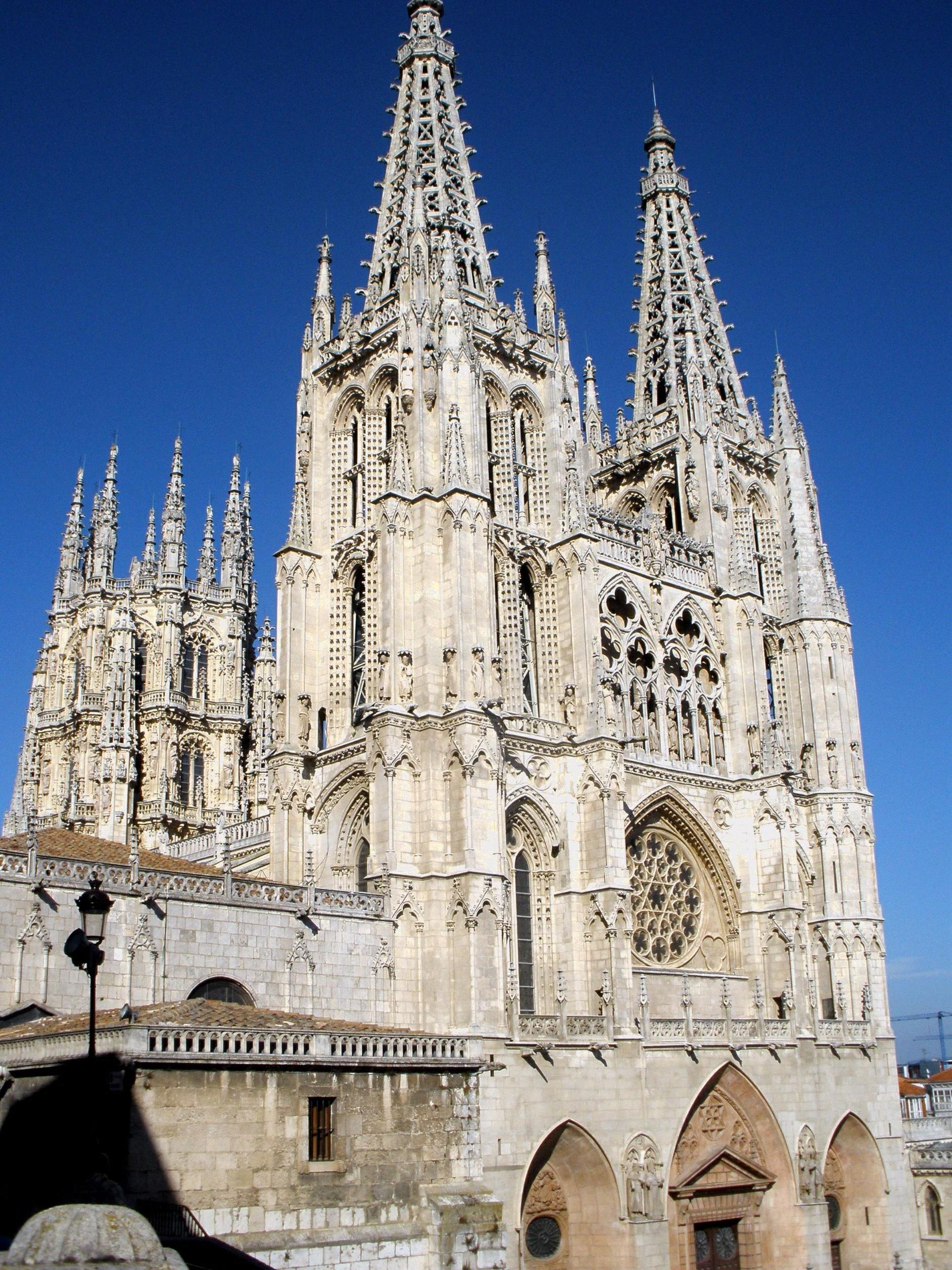 Fachada de Santa María de la Catedral de Burgos